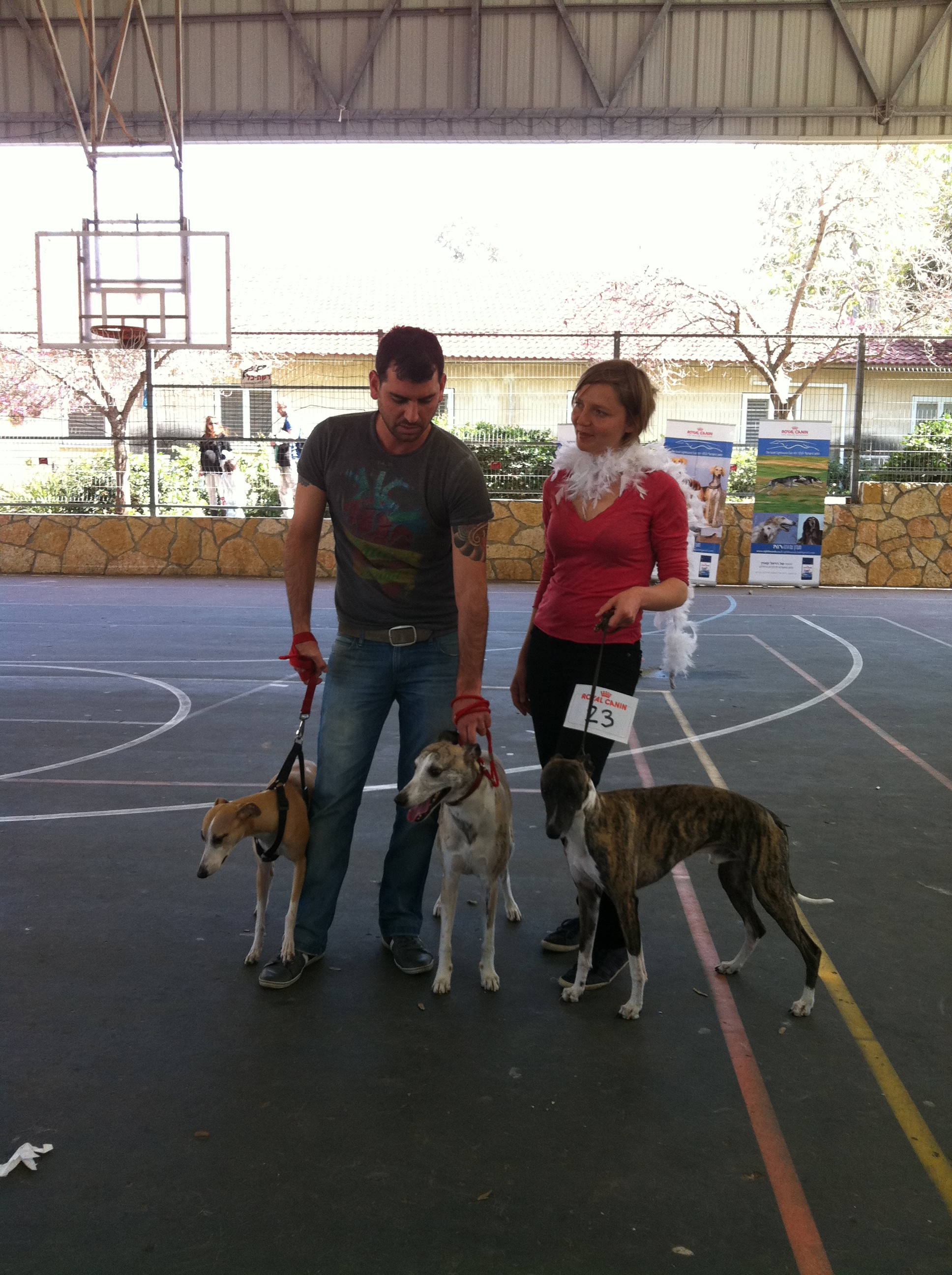 מפגש משפחתי בתערוכת פורים